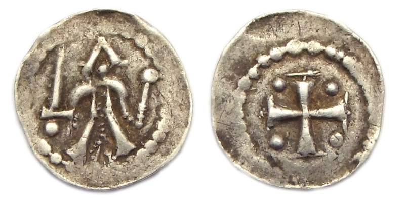 Holland, penny of Dirk VII, Count of Holland (1121-1157), struck circa 1140.